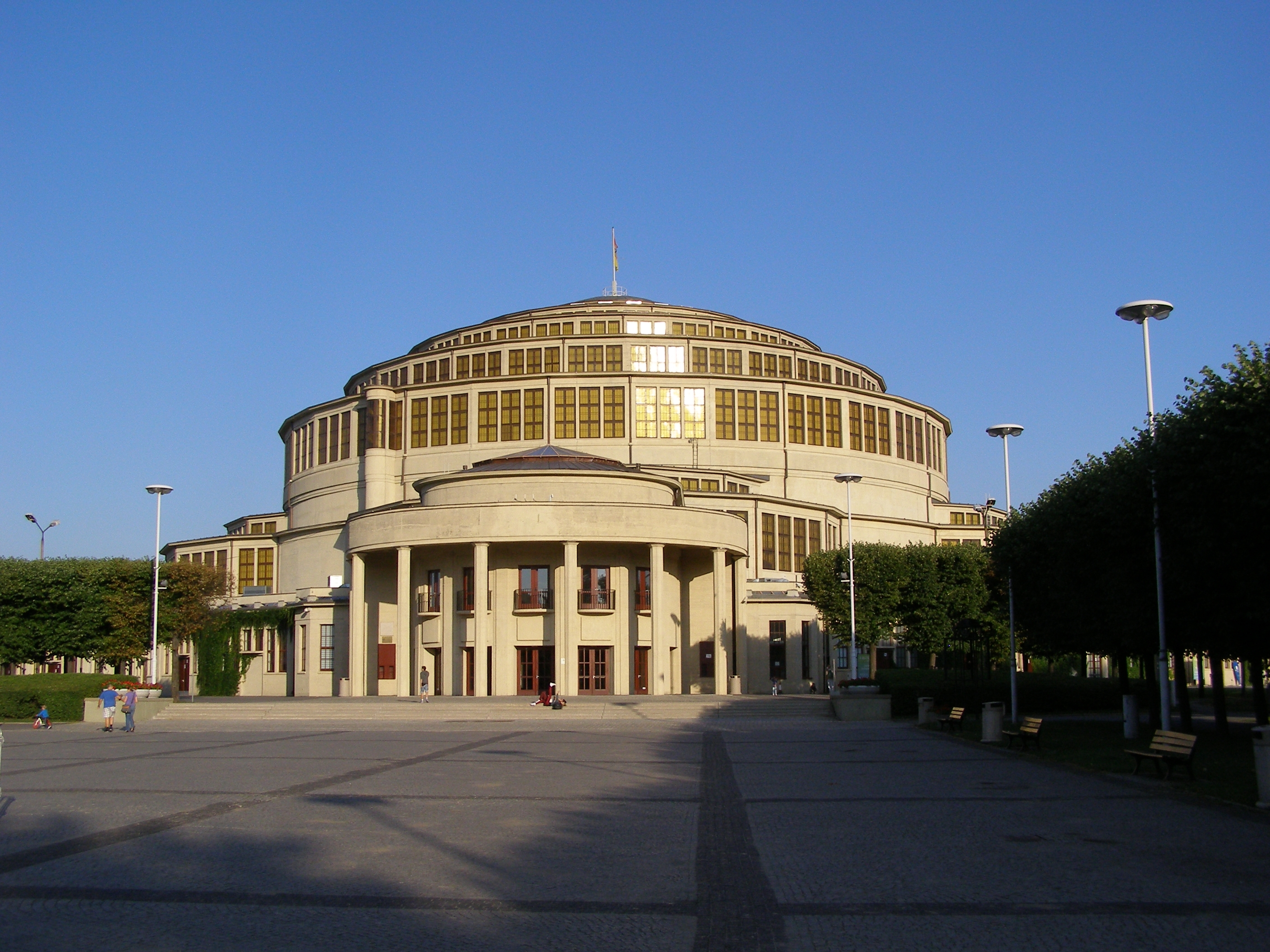 Wrocław - Centennial Hall